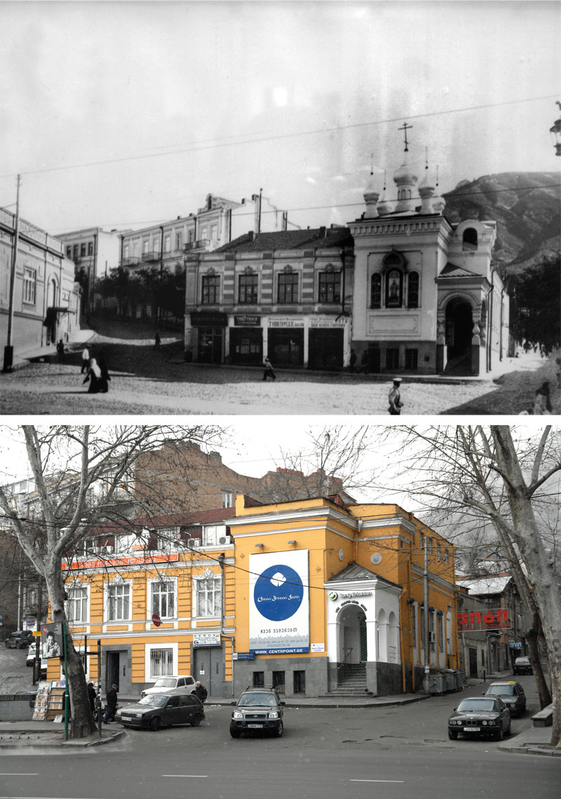 Russian Orthodox Church built in honour of saint Theodosios from Chernigov, standing at the junction of Vano Sarajishvili (formerly Thorny Ravine) and Alexander Griboyedov, and Postal Square. The church was built in 1910 and stopped being one sometime in 20-ies.